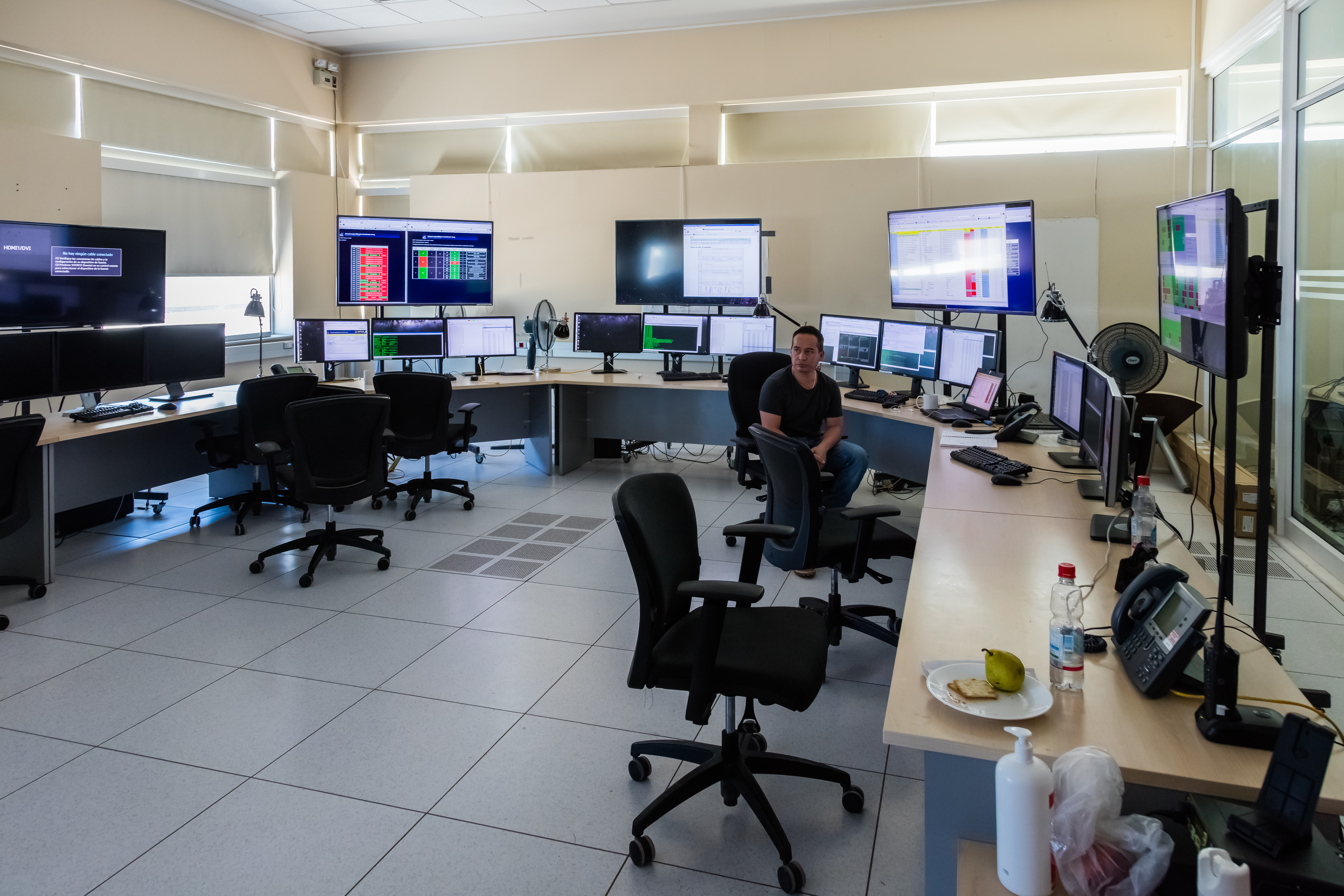 ALMA (Atacama Large Millimeter Array) space observatory, Atacama desert, Chile